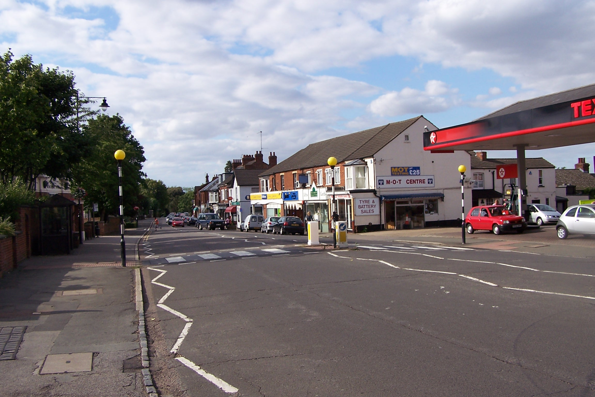 Woburn Sands in Milton Keynes, main street. Photo Cnyborg, July 2005